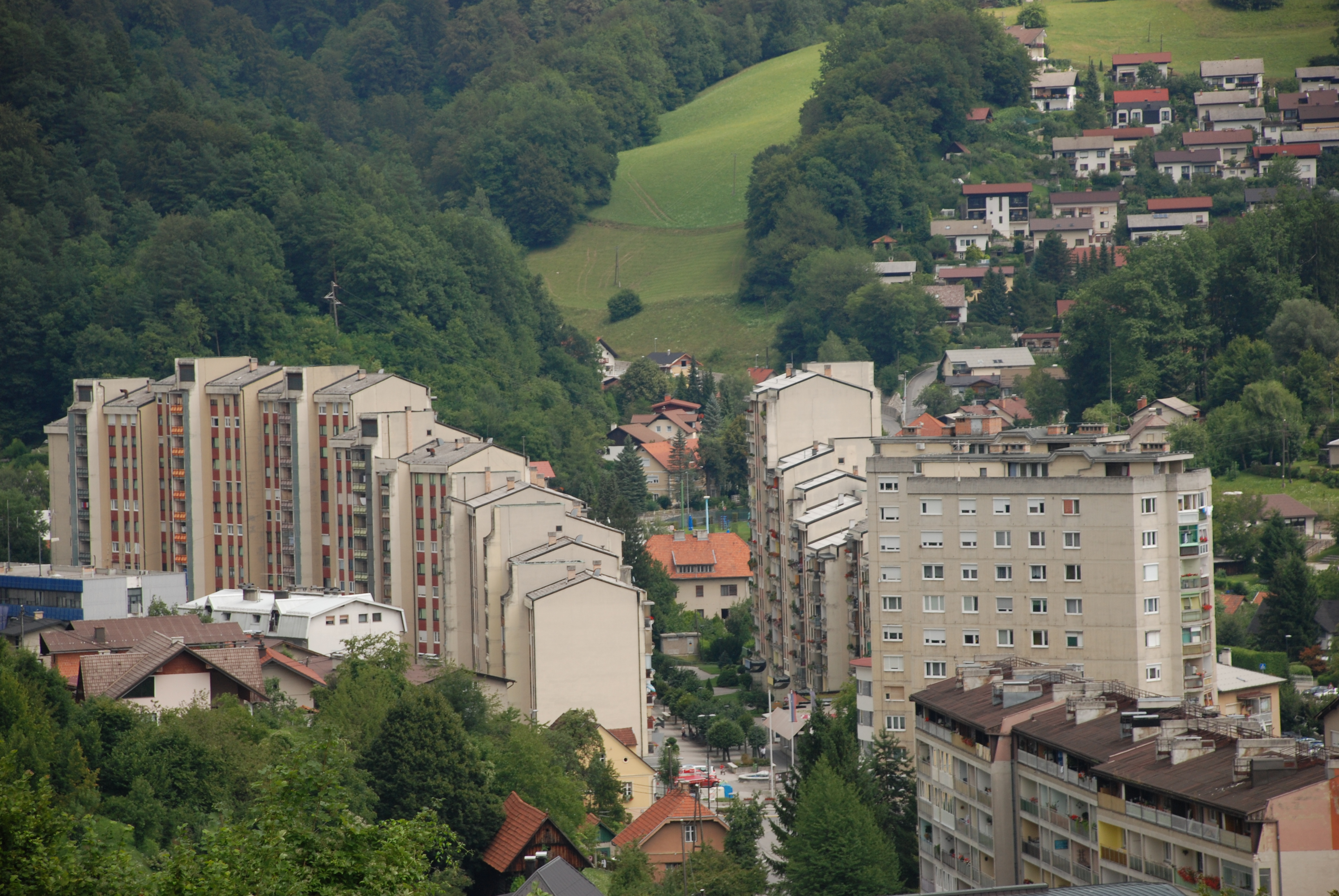 Trbovlje, apartment blocks in Sallaumines Street, named after a mining commune in northern France.